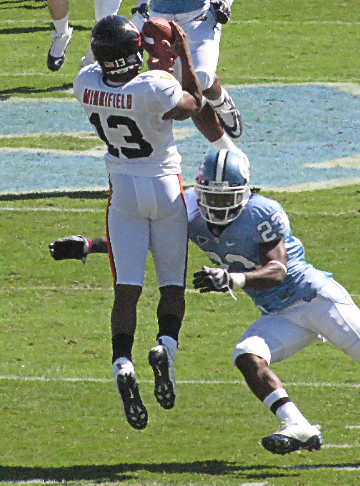 UVA cornerback, Chase Minnifield, in a 2009 game against the North Carolina Tar Heels.